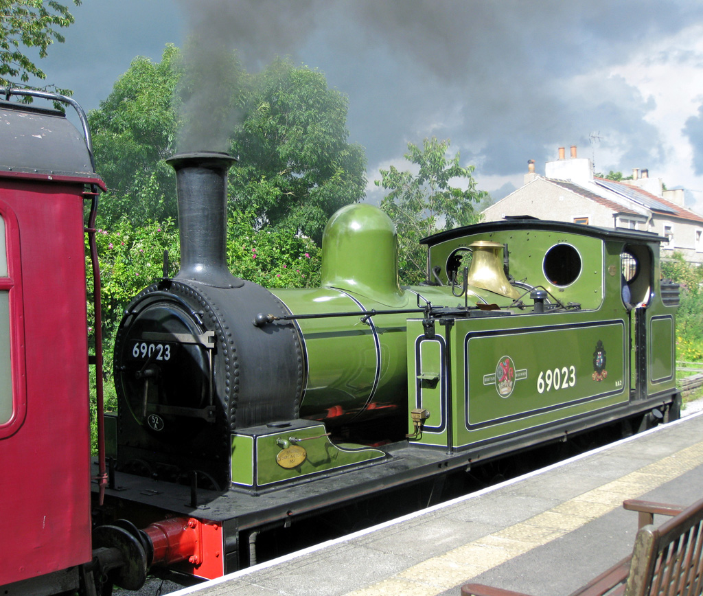 NER Class E1 (LNER J72) 0-6-0T loco 69023 on the Wensleydale Railway in 2014